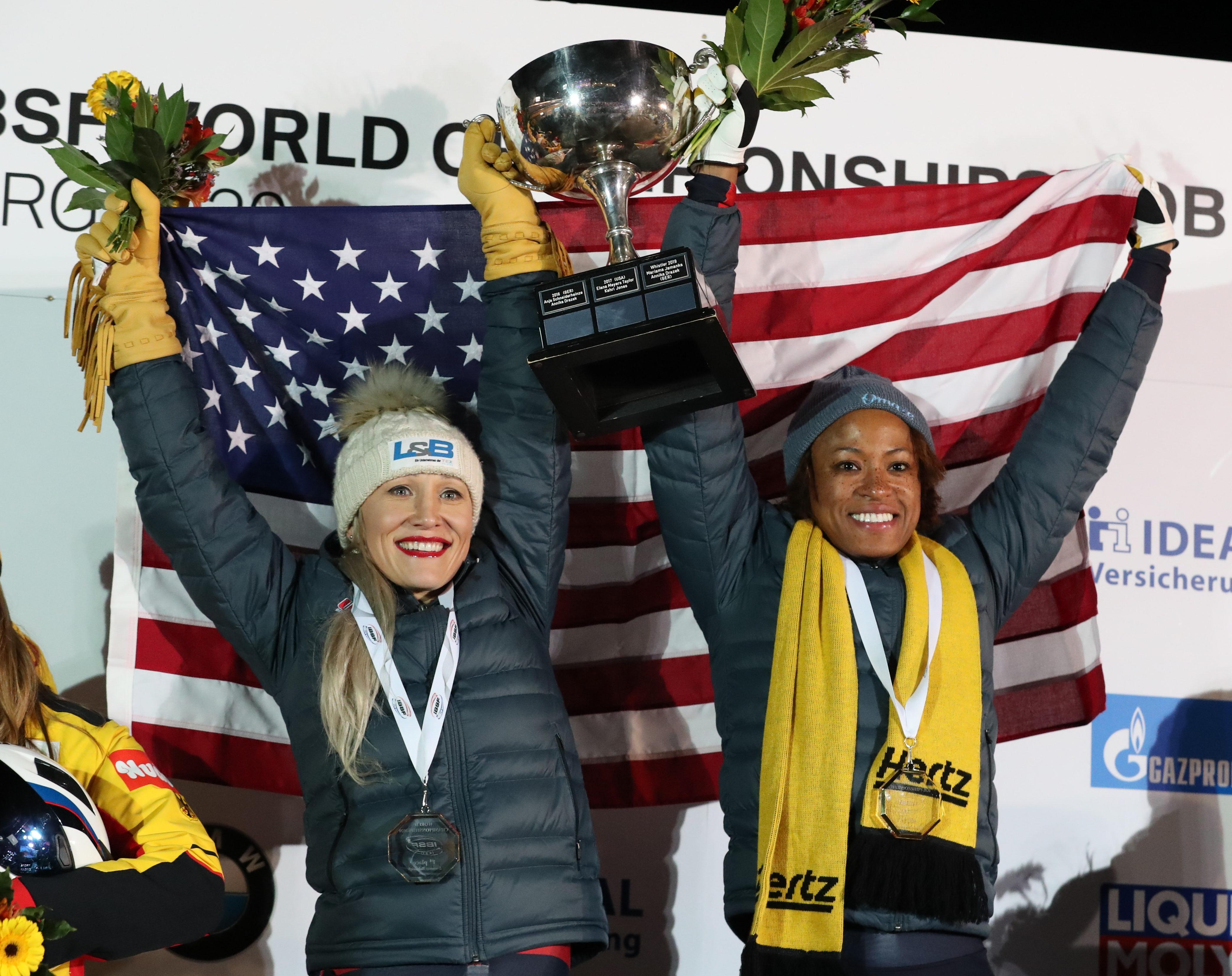 Medal Ceremony at the 2-woman bobsleigh at the Bobsleigh and Skeleton World Championships 2020 in Altenberg